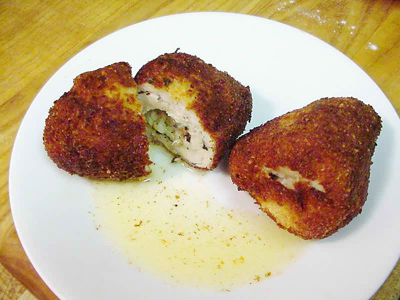 From Jon Sullivan's "I made Chicken Kiev last night. I've wanted to make this for a long time. I never seem to pound the chicken thin enough though. One tip here: Don't grab the 400 degree pan you bake it in with your bare hand. This would be a bad thing." Camera: Sony FD-88